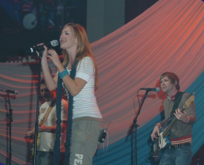 American Christian musical group Addison Road in 2006.